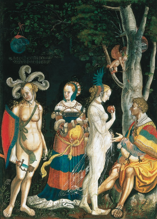 The judgement of Paris